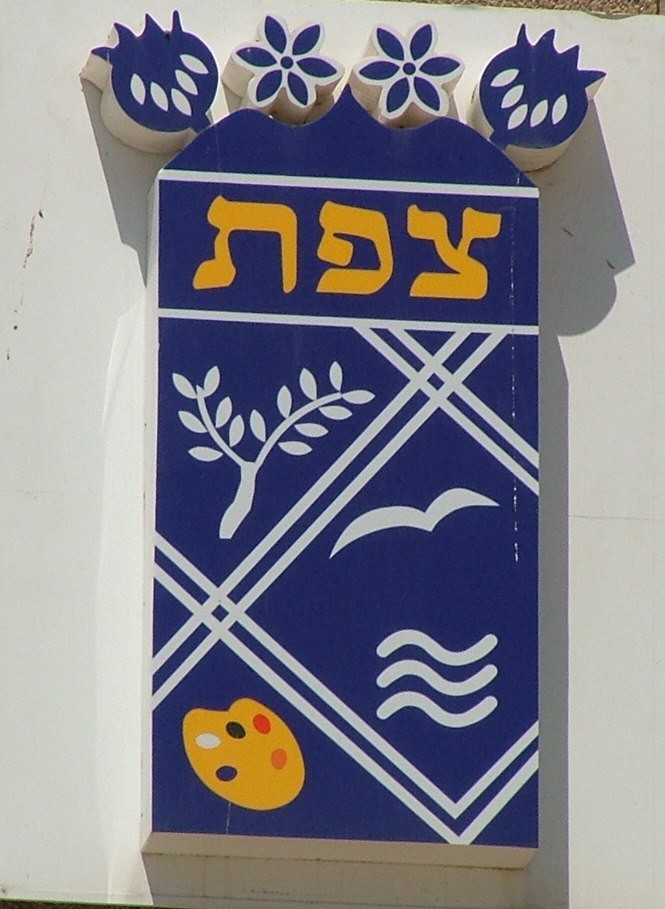 Coat of Arms of the city of Tzfat.